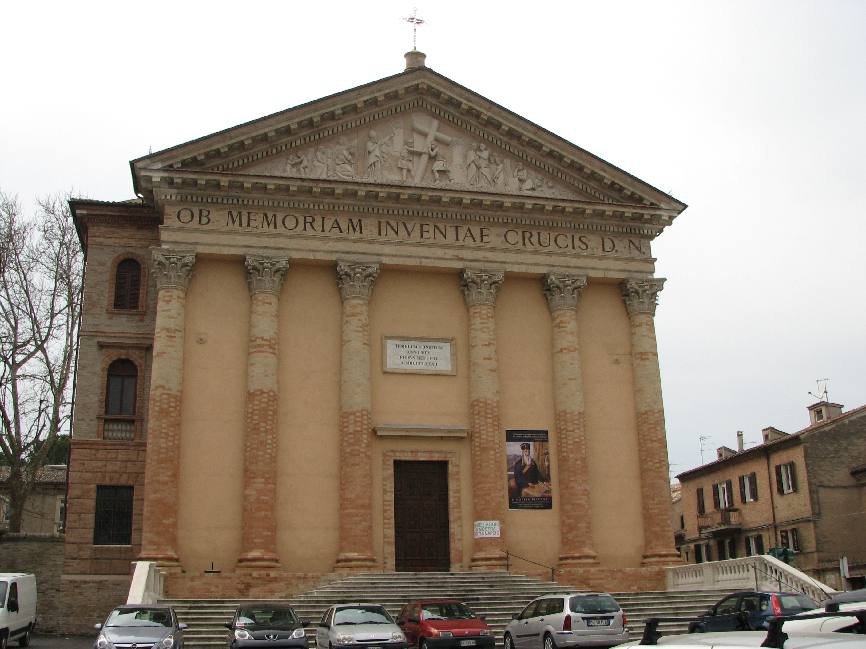 Church of Holy Cross in Macerata